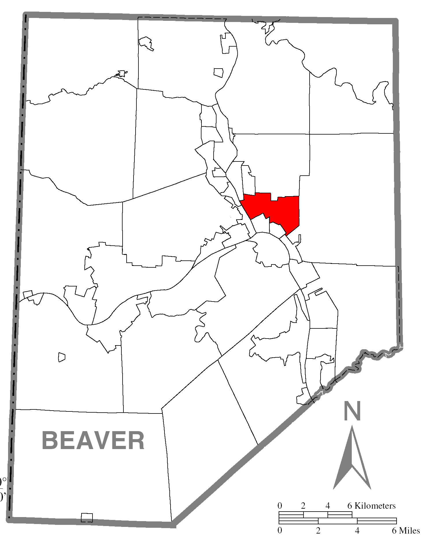 A map of Beaver County showing Rochester Township, Pennsylvania (alternate) highlighted on the map.